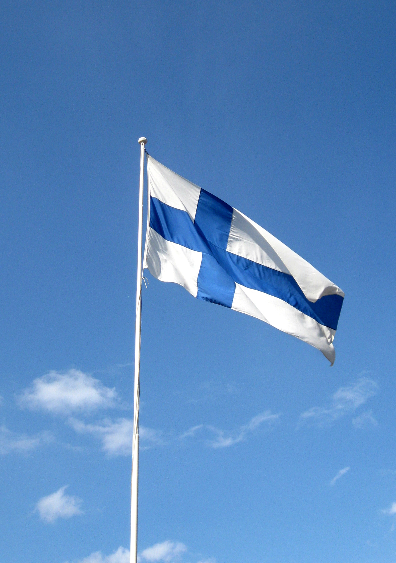 Flag of Finland.